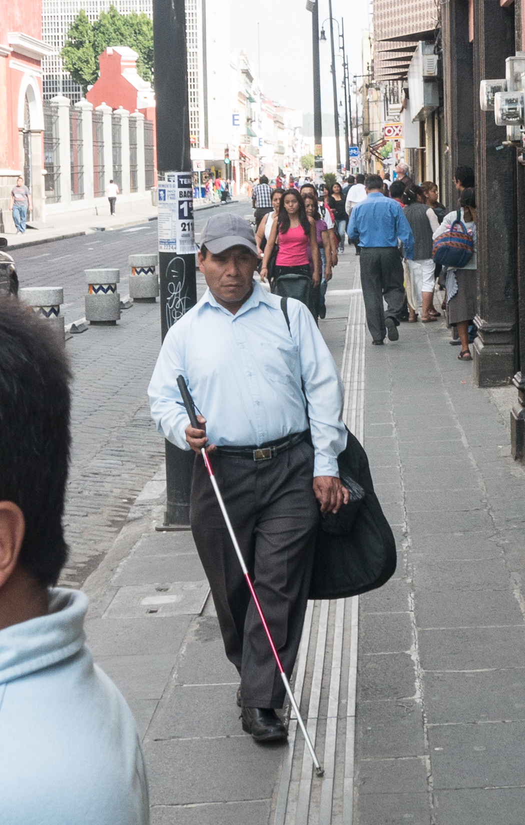 blind man walking with a long cane